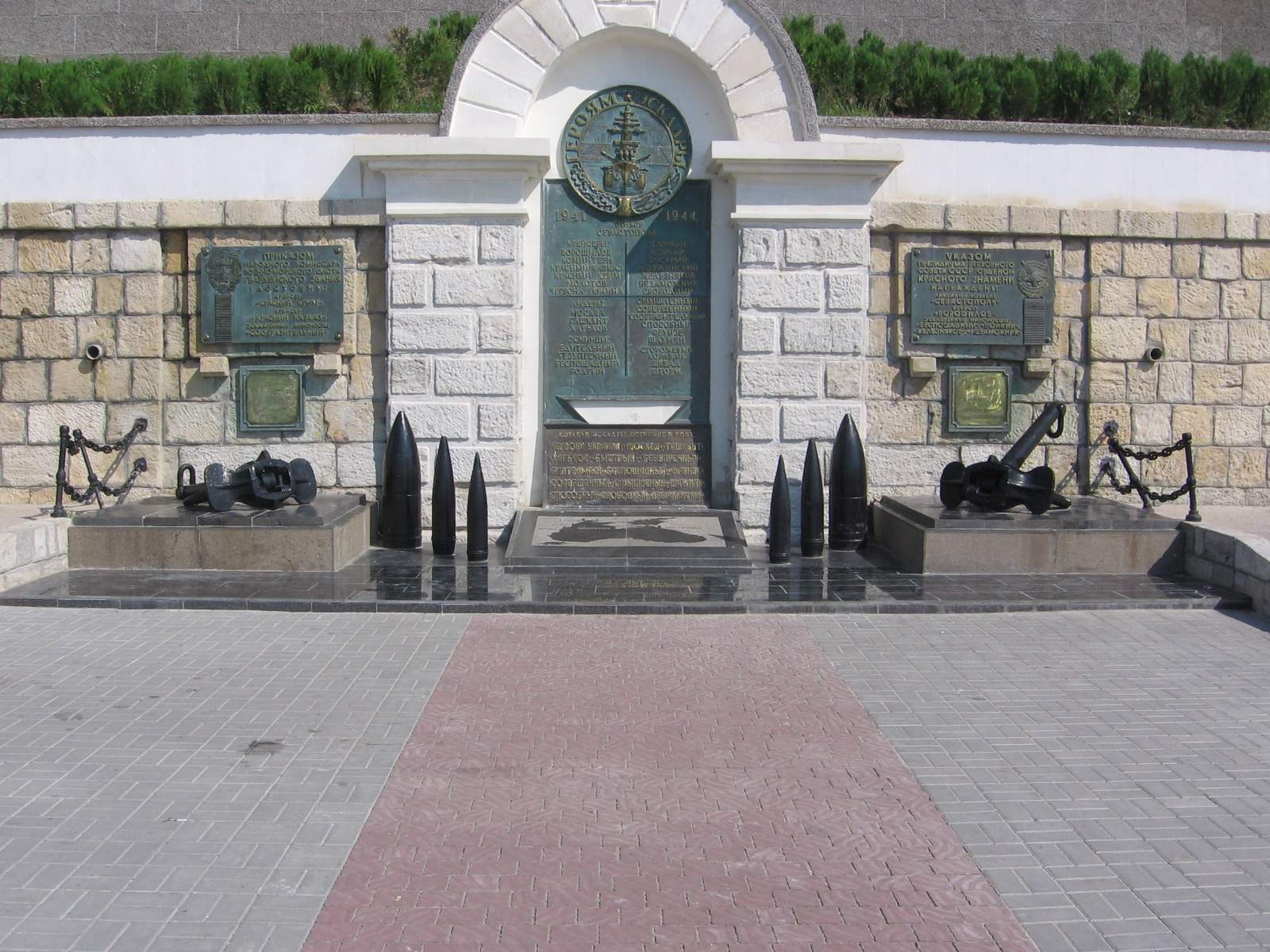 Monument to Heroes of the Black Sea Fleet Squadron in Sevastopol. Built on May 8, 1979 for the 35th anniversary of the liberation of Sevastopol. In the center is the image of the flagship of the Black Sea Fleet, battleship Sevastopol and the list of 28 Soviet military ships that distinguished themselves during battles with Nazi invaders. Authors: architects V.M.Artyukhov and V.A.Savchenko, sculptor V.E.Sukhanov.